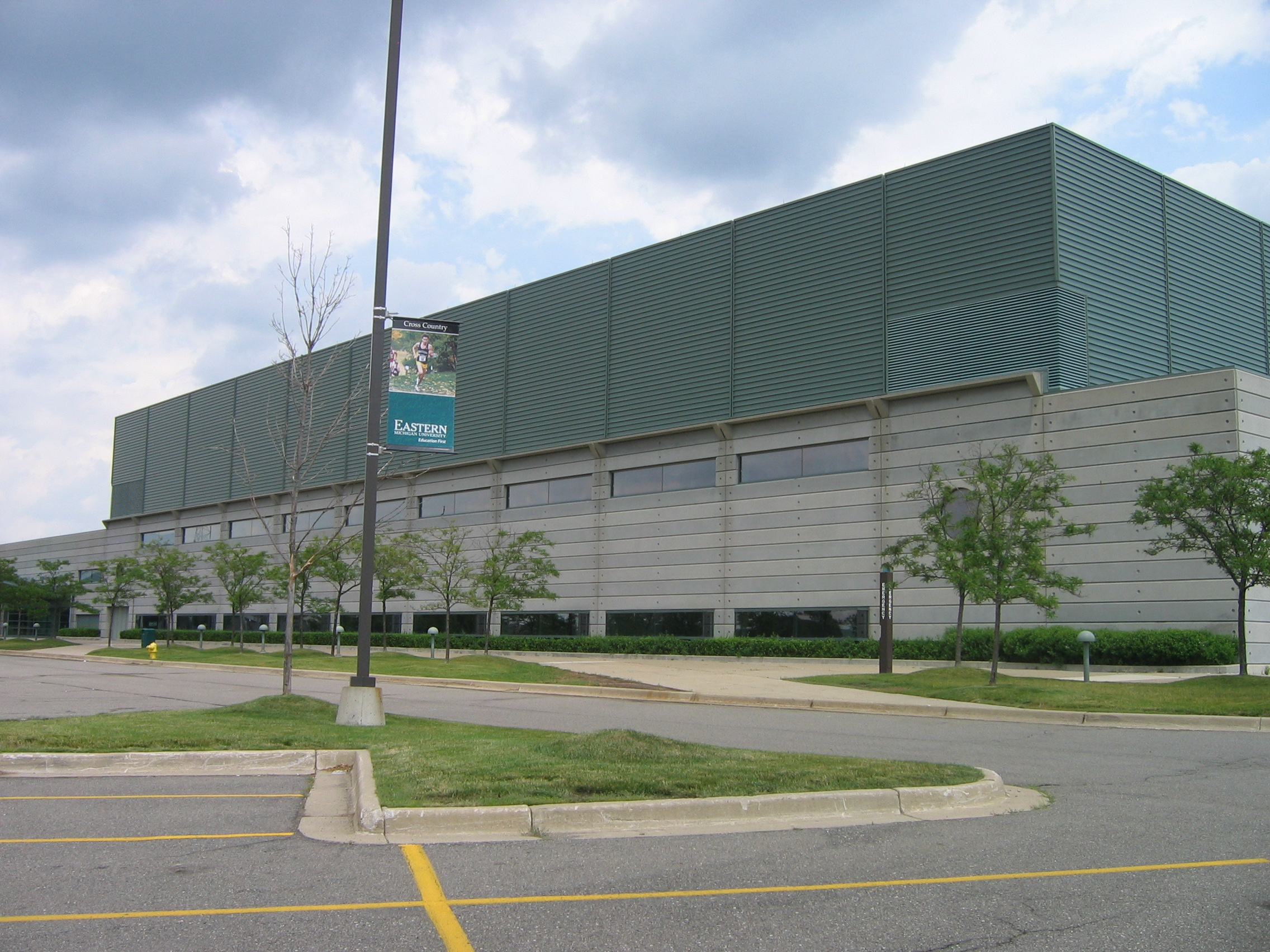 EMU Convocation Center - Exterior